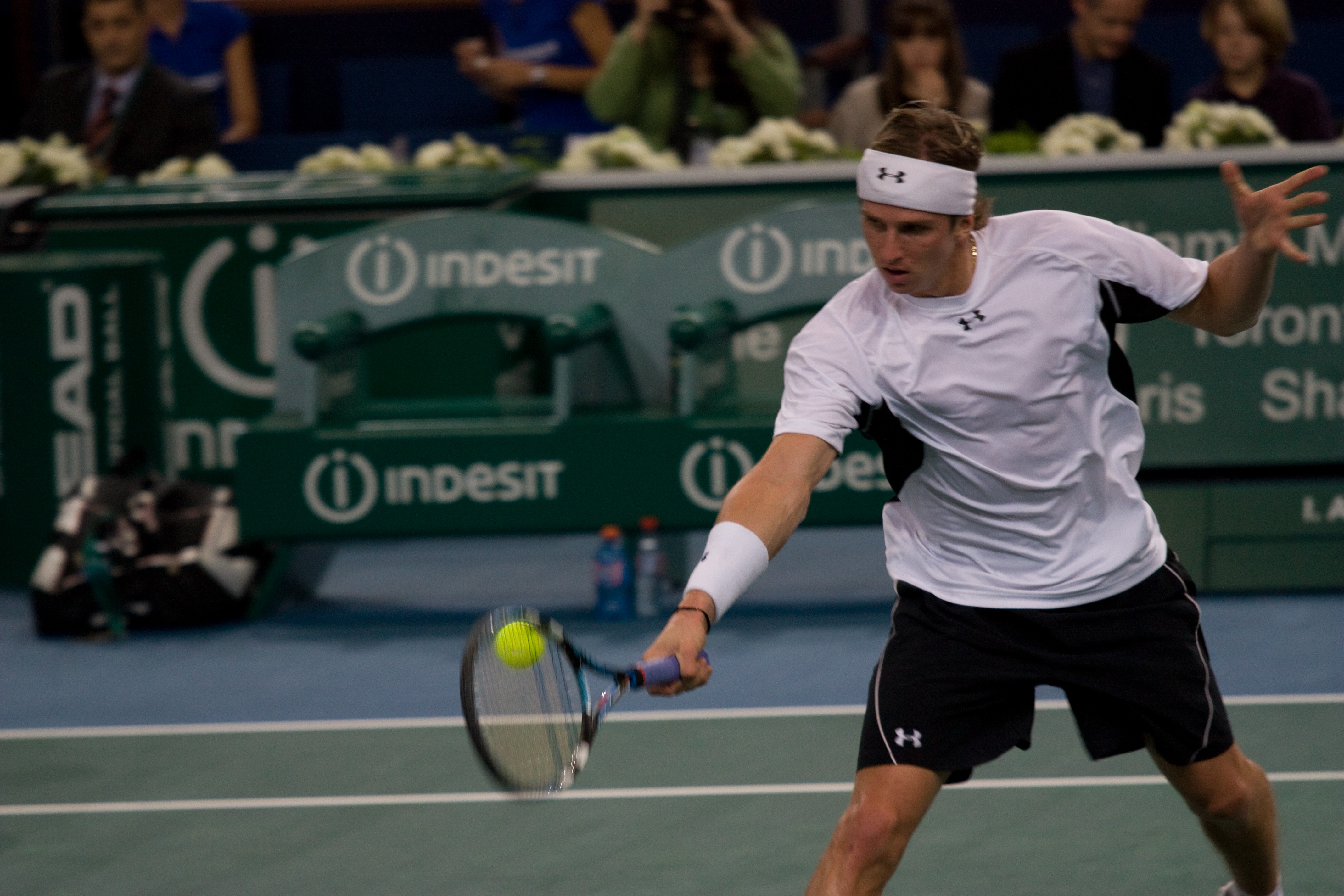 Igor Andreev against Gilles Simon at the 2008 BNP Paribas Masters